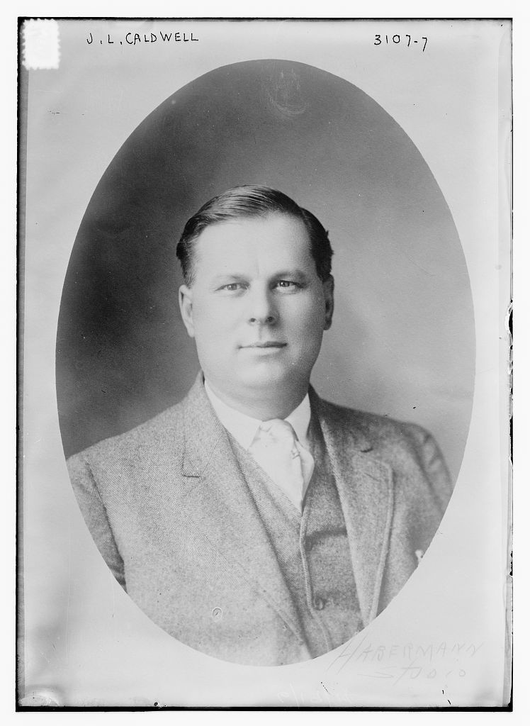 J. L. Caldwell Bain News Service,, publisher. J.L. Caldwell [between ca. 1910 and ca. 1915] 1 negative : glass ; 5 x 7 in. or smaller. Notes: Title from unverified data provided by the Bain News Service on the negatives or caption cards. Forms part of: George Grantham Bain Collection (Library of Congress). Format: Glass negatives. Repository: Library of Congress, Prints and Photographs Division, Washington, D.C. 20540 USA, General information about the Bain Collection is available at Persistent URL: Call Number: LC-B2- 3107-7